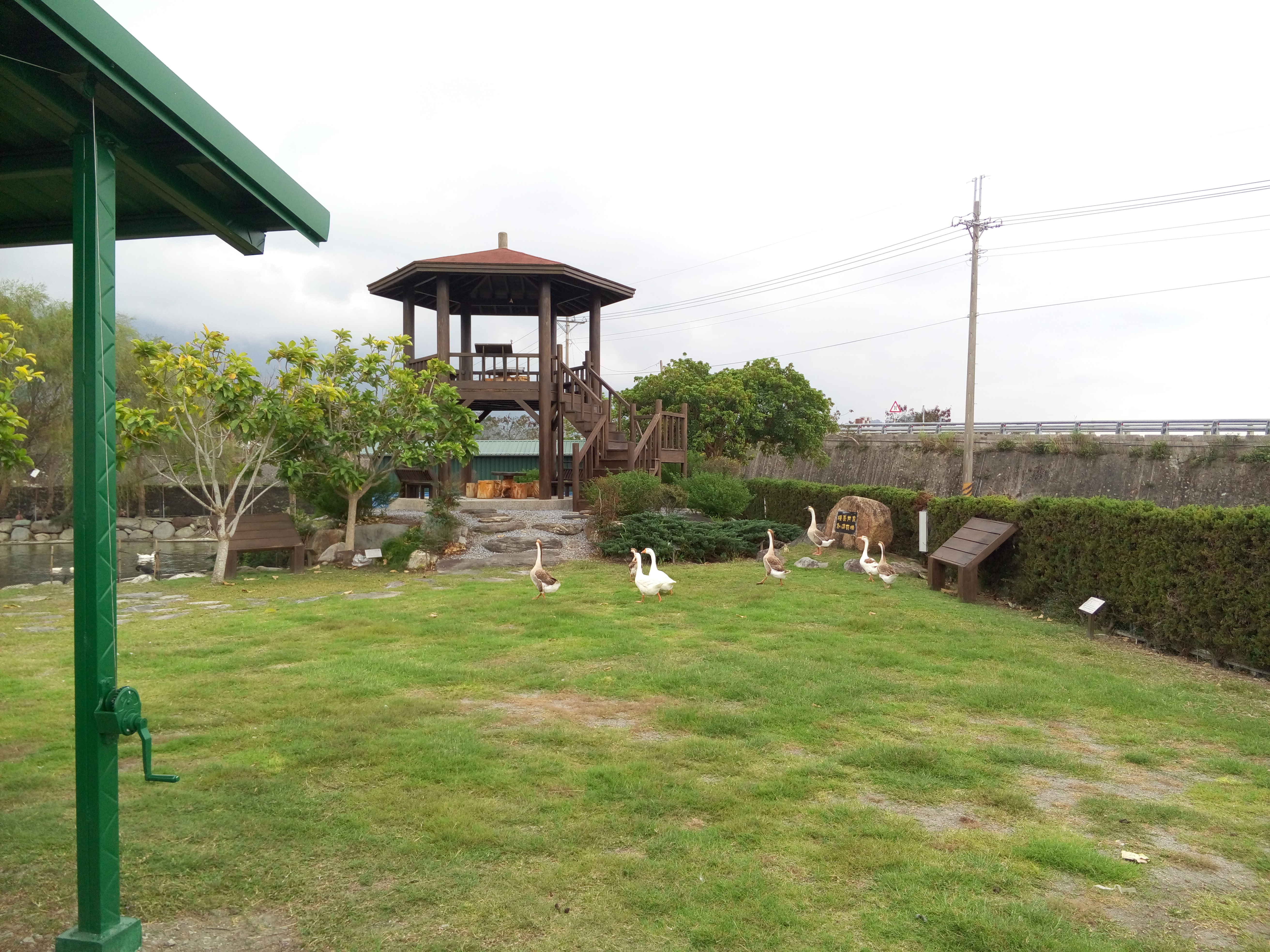 Taiwan(R.O.C)Taitung County Chihshang Township Wan’an Waterway